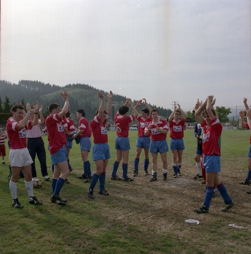 Aloña Mendi footballers celebrating league promotion.